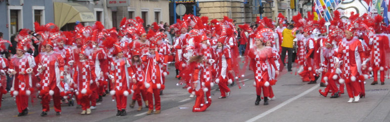 Carnival in Rijeka, checkerboard in croatian national colors